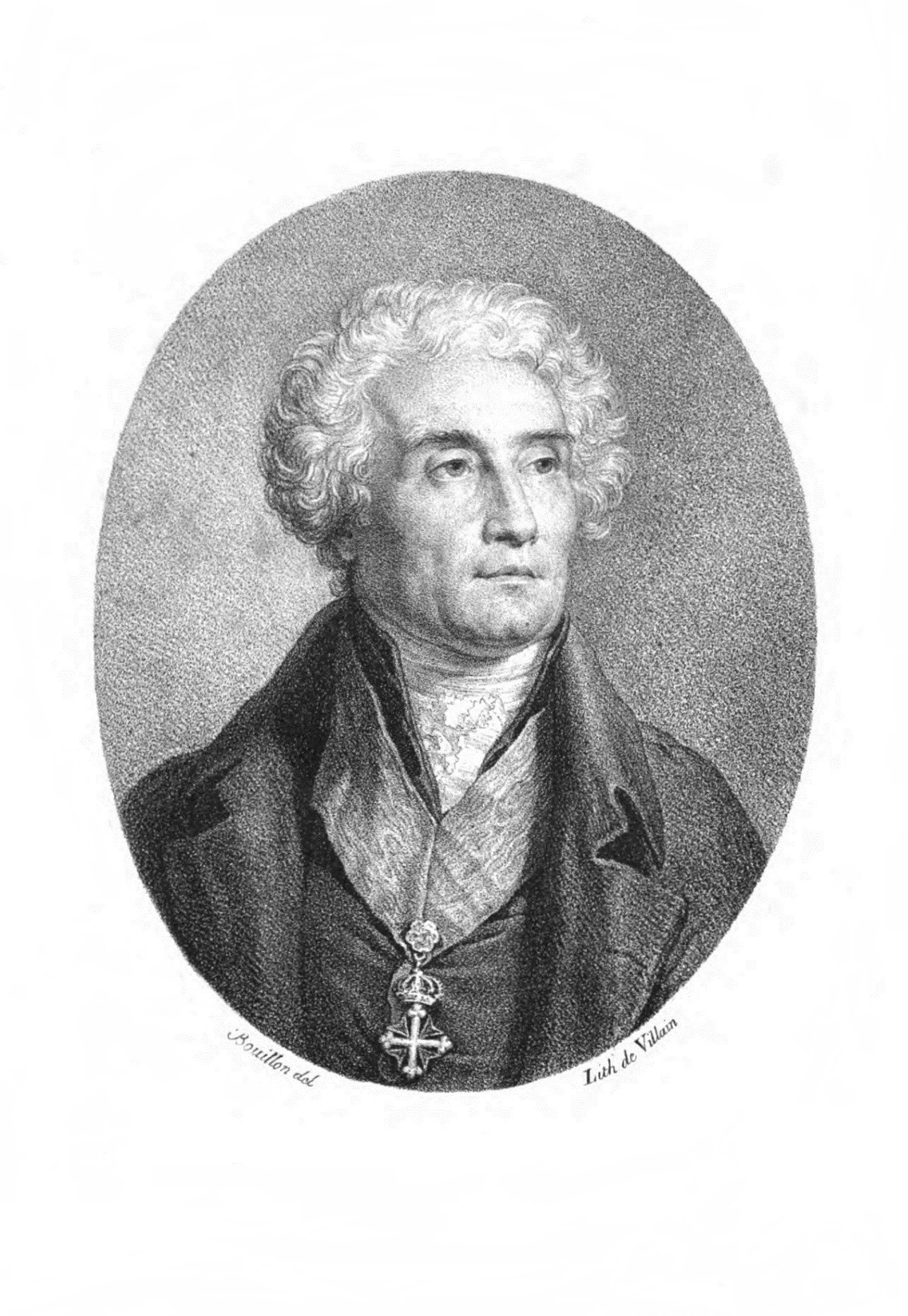 Lithograph of Joseph de Maistre from a painting by Pierre Bouillon